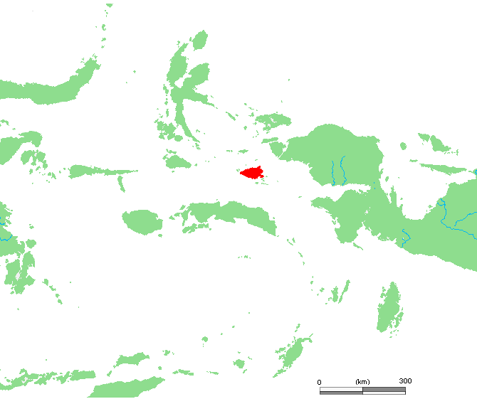 ID Misool.PNG